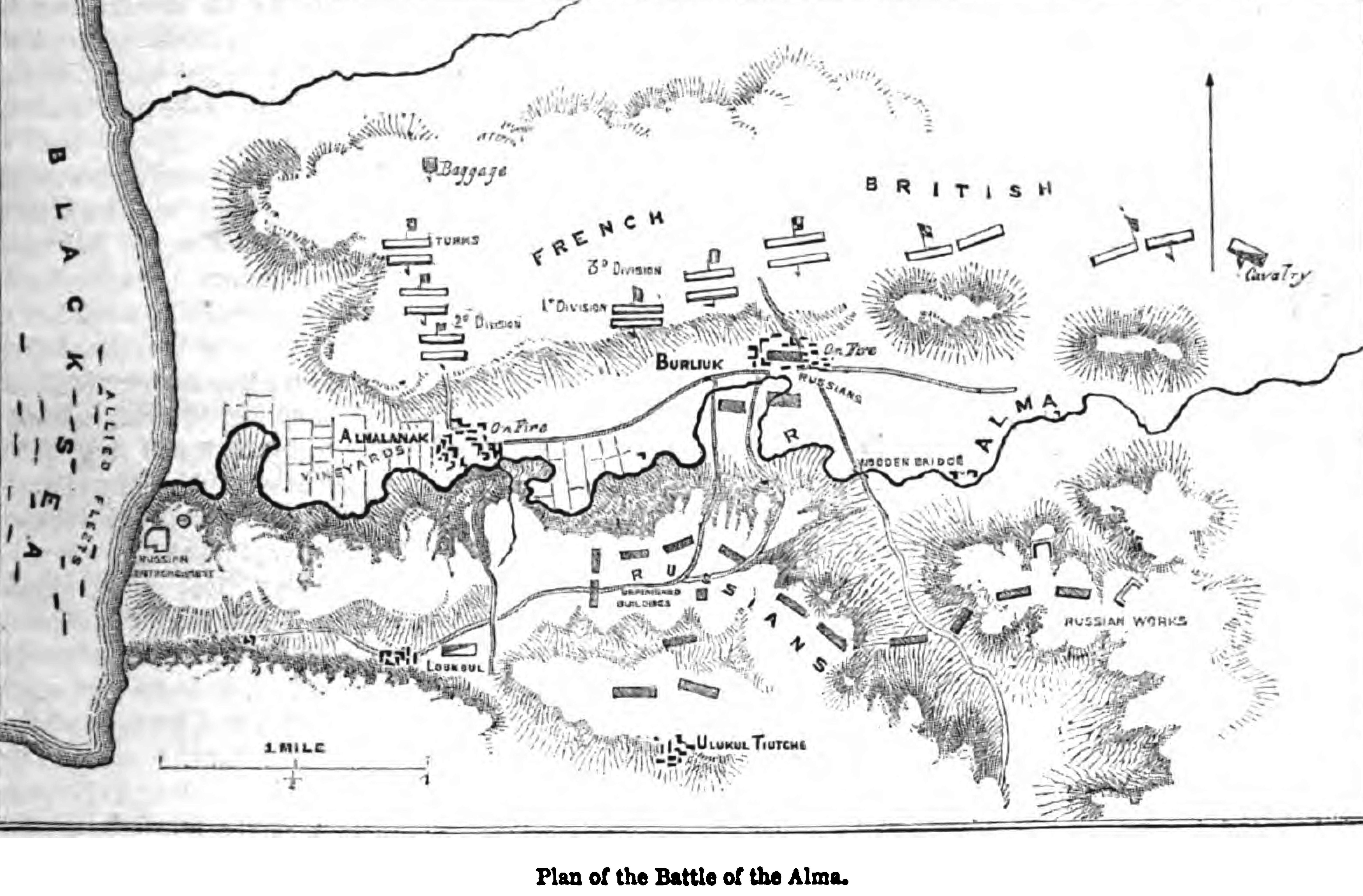 Pictorial history of the Russian war 1854-5-6: with maps, plans, and wood engravings